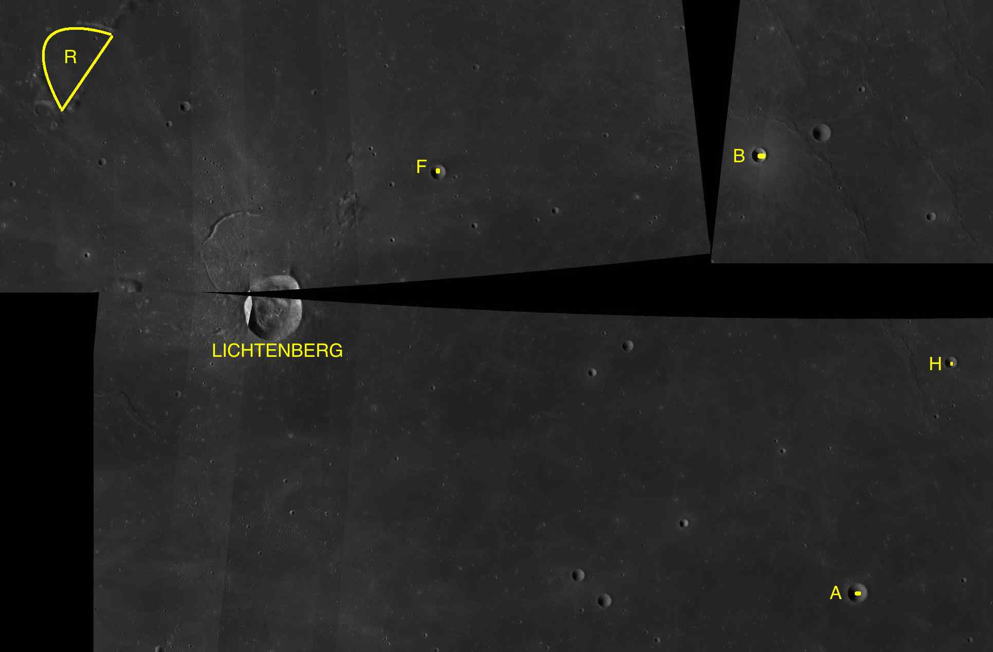 Parts of the charts LAC-22, LAC-23, LAC-38 used for the presentation